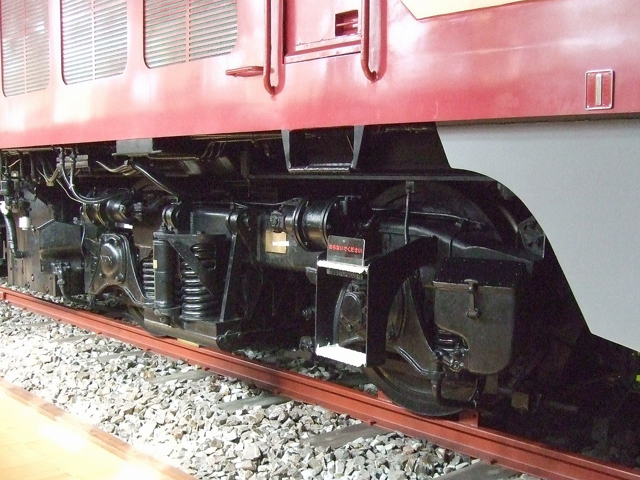 JNR truck DT104, truck of EL type ED70. / Location:at Nagahama Railway Square, Nagahama City, Shiga, Japan.